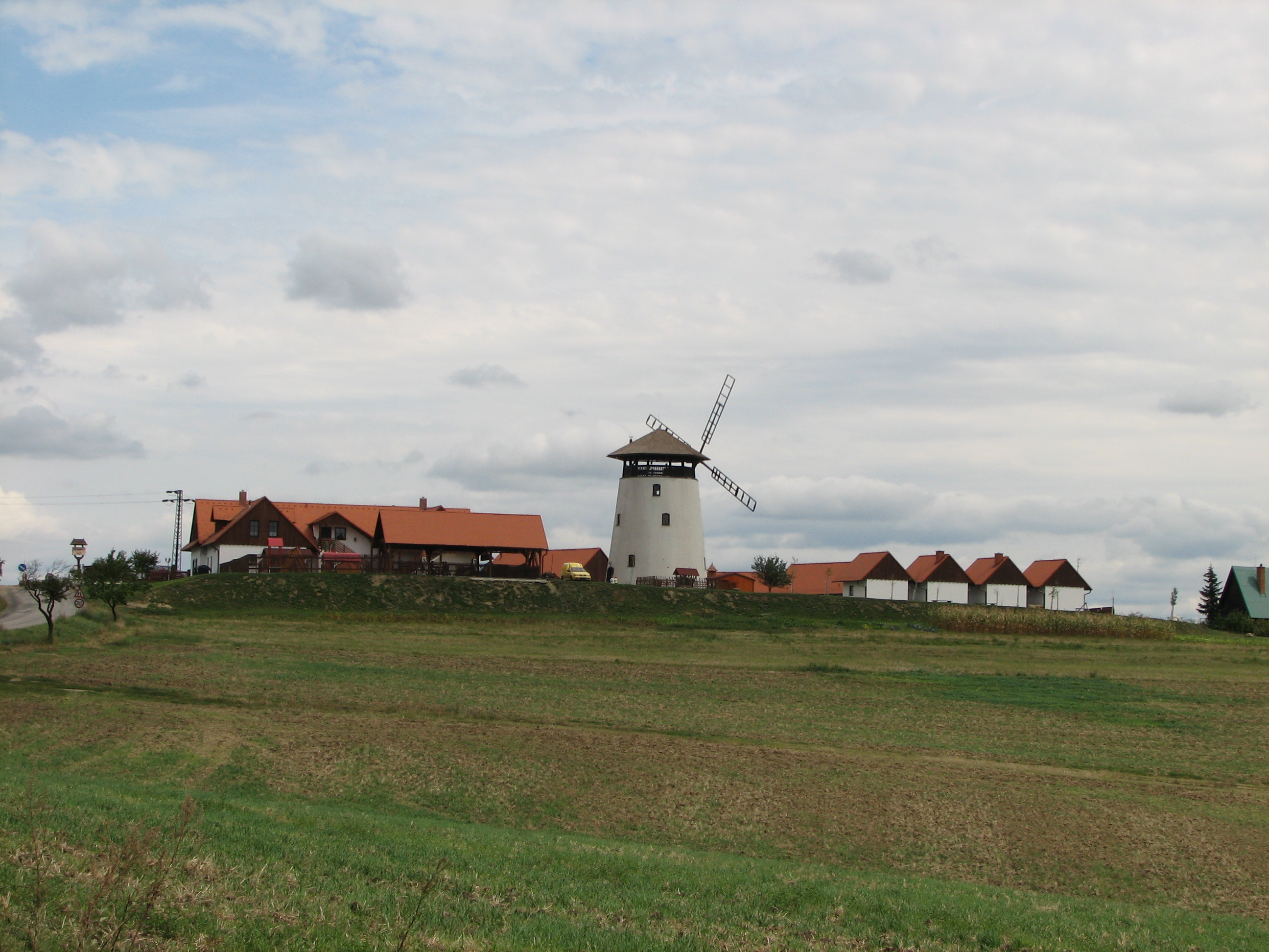 Mill in Bukovany - view from the road leading to Ostrovánky